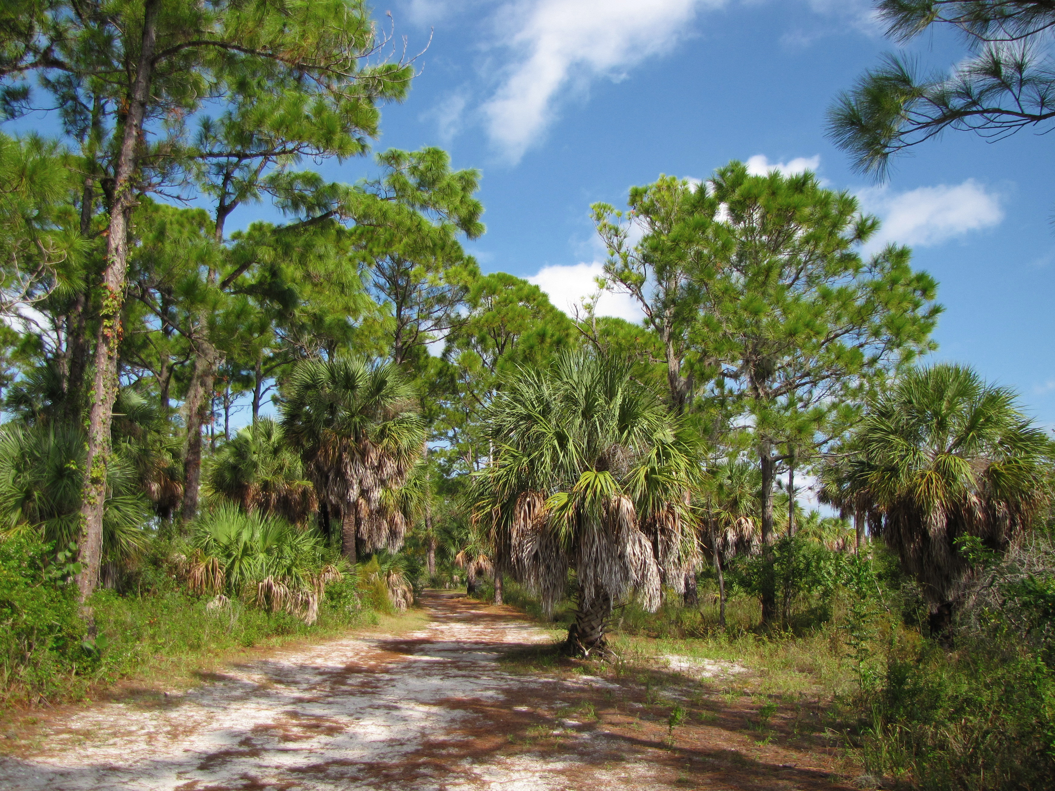 Trees specimens on the Osprey Hiking Trail of Pinus elliottii var. densa and Sabal palmetto, at Honeymoon Island State Park. near Dunedin, Pinellas Co., Florida.